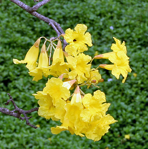 Caribbean Trumpet Tree Tabebuia aurea in Kolkata, West Bengal, India.